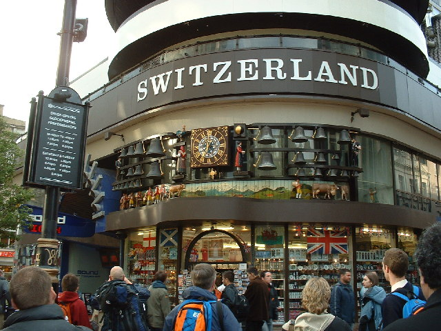 Swiss Building. The Swiss Centre, Leicester Square. The bells play a tune every so often!